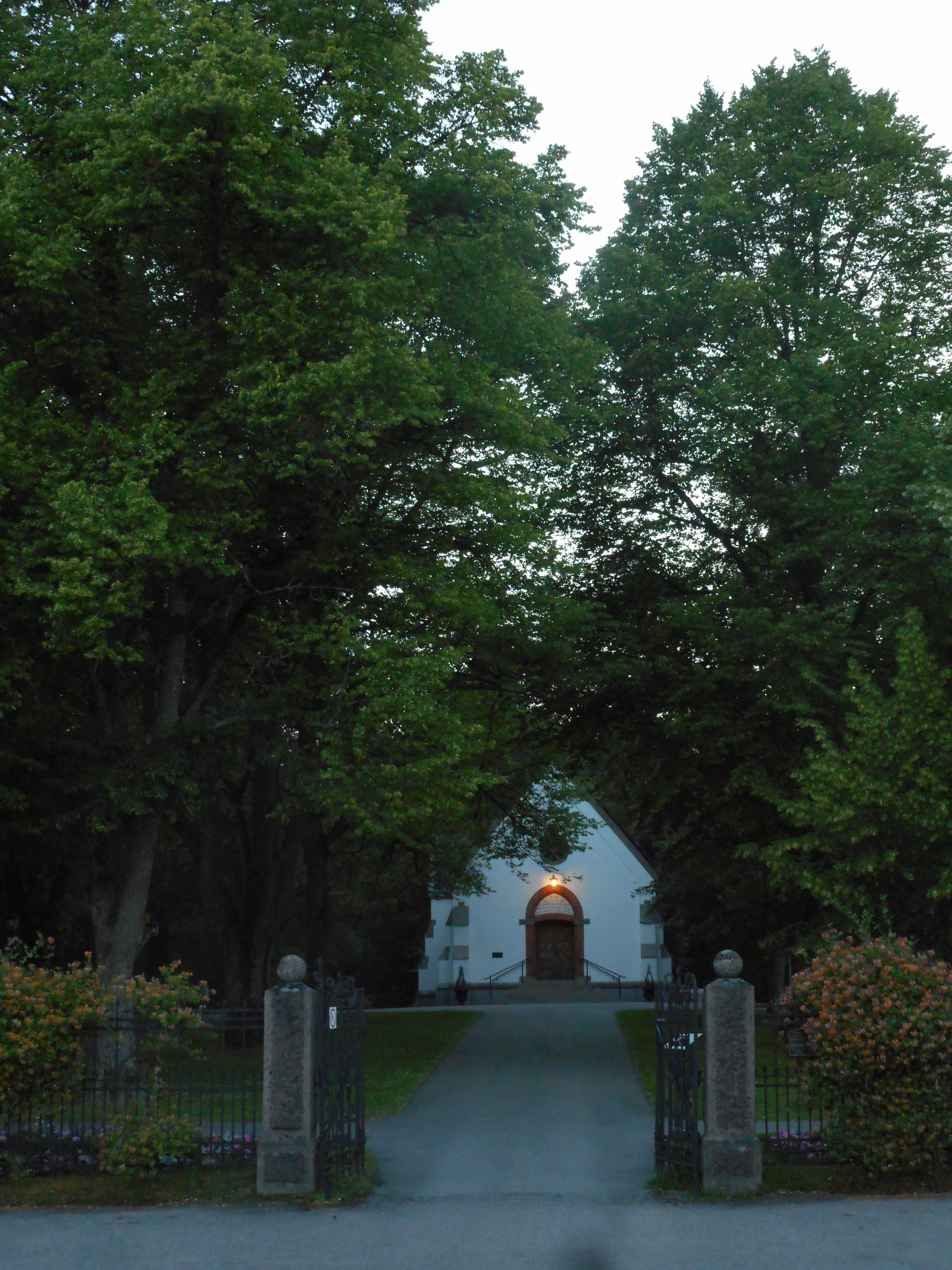 The chapel building of "Skogskyrkogårdens kapell" at Badstugatan in Karlskoga, Karlskoga Municipality